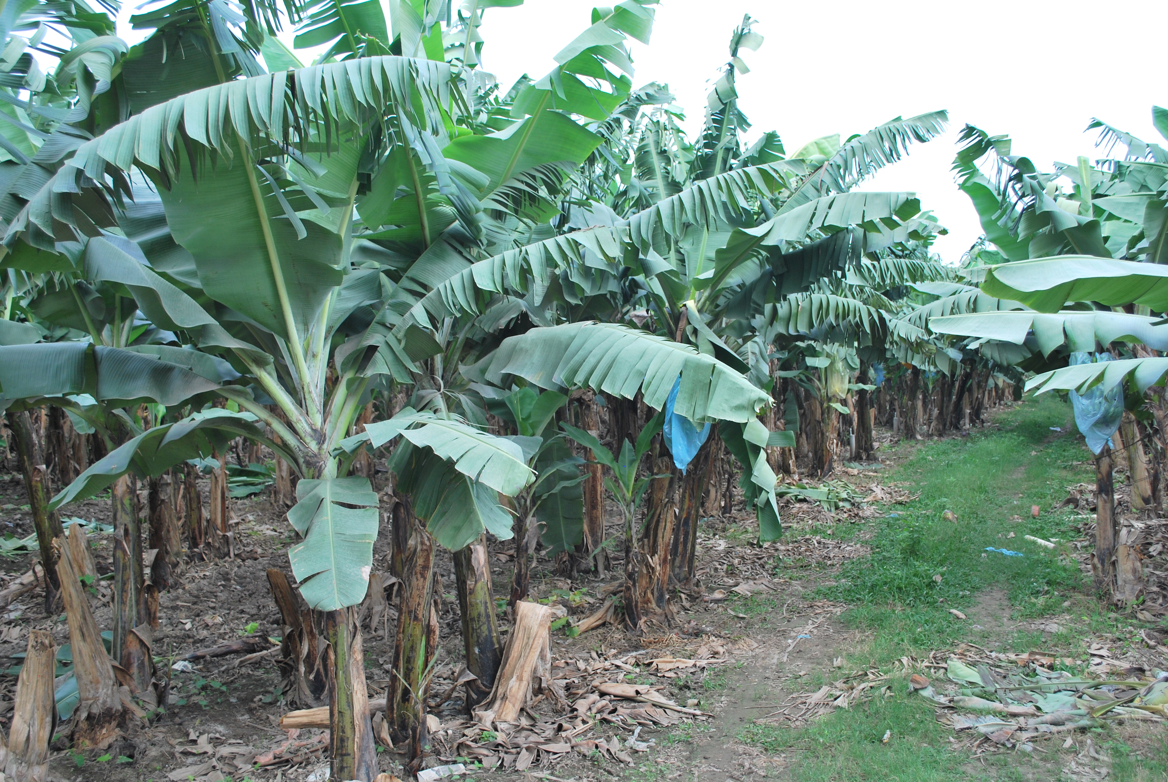 Banana plants at the Rancho La Duena in Paso de Telaya, San Rafael, Veracruz